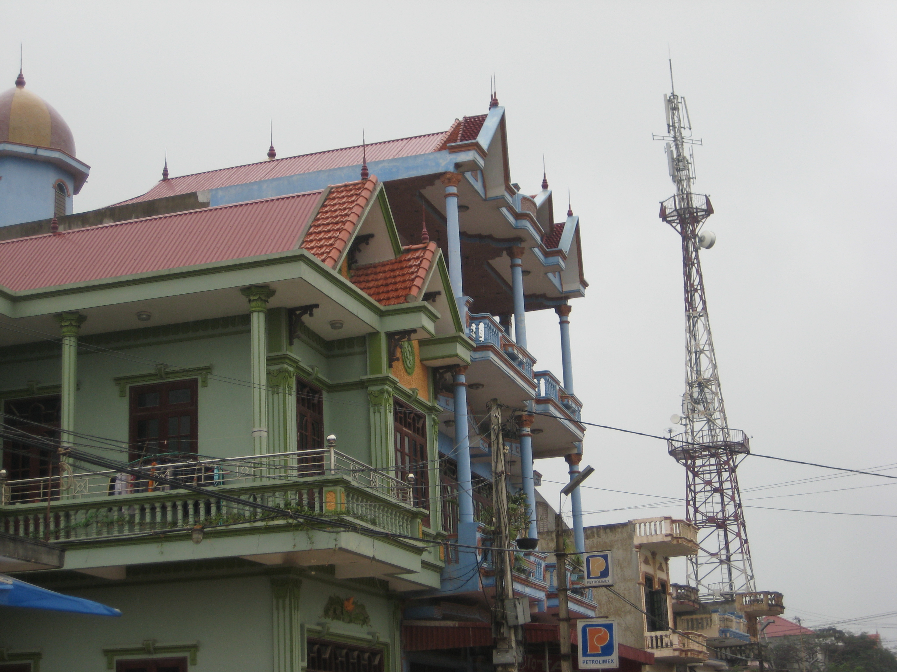 The coastal area of ​​the Day estuary in Kim Son district, Ninh Binh province, is recognized by UNESCO as a World Biosphere Reserve (Red River Delta Biosphere Reserve).